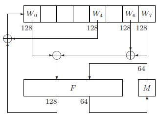 Initialization scheme of the Dragon Cipher